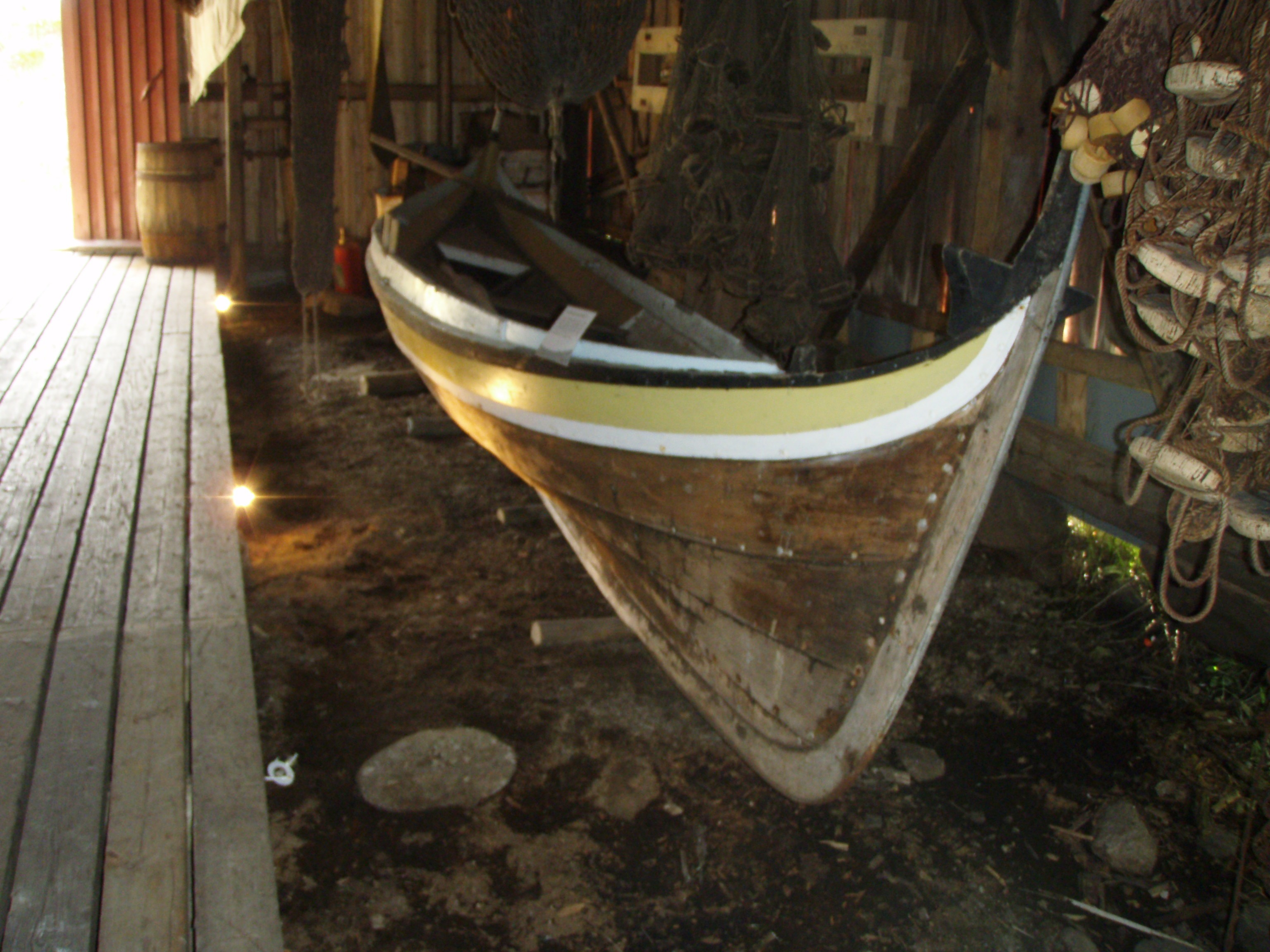 Rowing-boat from North-Norway (Nordlandsbåt) normally doubling as a sailing-boat